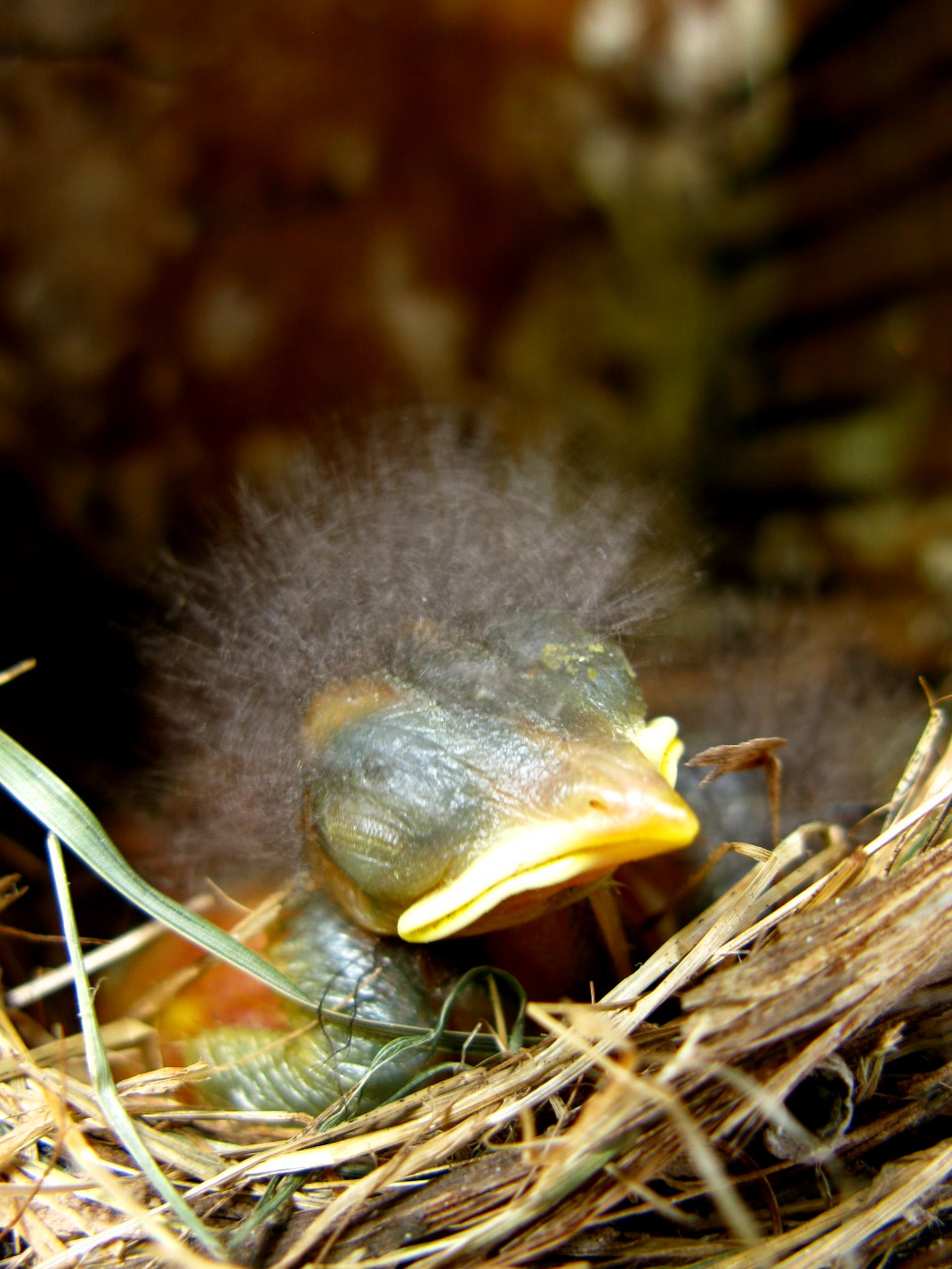 The bluebirds have a second brood, all the way into July! This morning we checked the eggs, and behold, a new baby popped up his head with a feather mohawk! There are still a couple of eggs to hatch, so obviously this baby is BRAND NEW. Time to get out the mealworms...